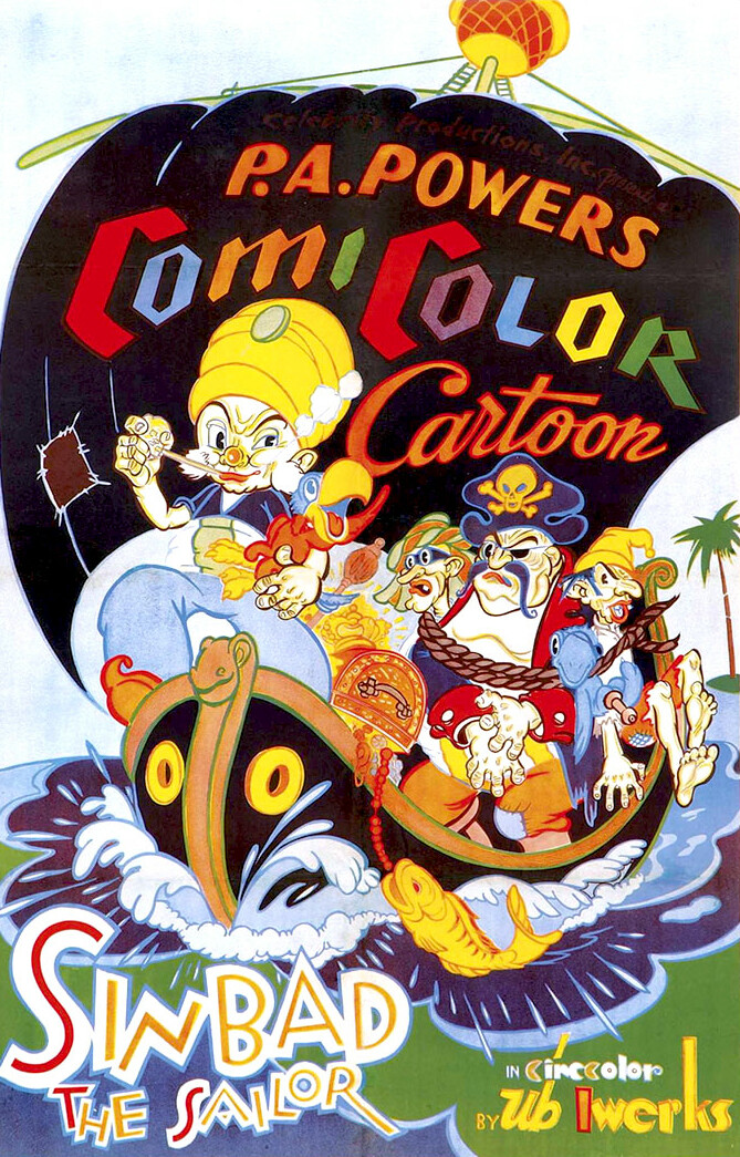 Film poster for the animated cartoon Sinbad the Sailor from 1935. What's at the lower right is the name of the litho company who printed the poster--I can't make it all out but can see "Litho Co." when zoomed/enlarged. There are no other visible marks. To be sure the poster is in the public domain, a search was done for original registrations in both motion pictures and artwork for the year 1935; nothing pertaining to Iwerks, Powers, or Celebrity Productions was discovered. An artwork by John S. Rork, "Mr. Kizmet, Sinbad and the Princess", was registered in 1936. There are no listings for "Sinbad" in either section for 1935. There's no evidence that this material was ever under copyright.